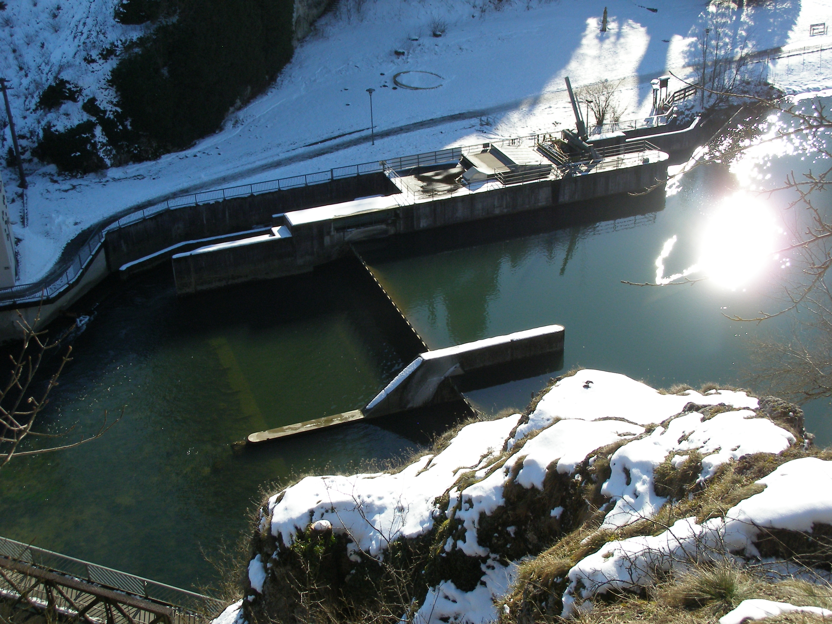 Sigmaringen - a weir on the Danube